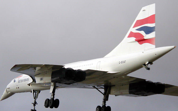 An unusual angle on Concorde, taken five seconds before the final Concorde landing ever.